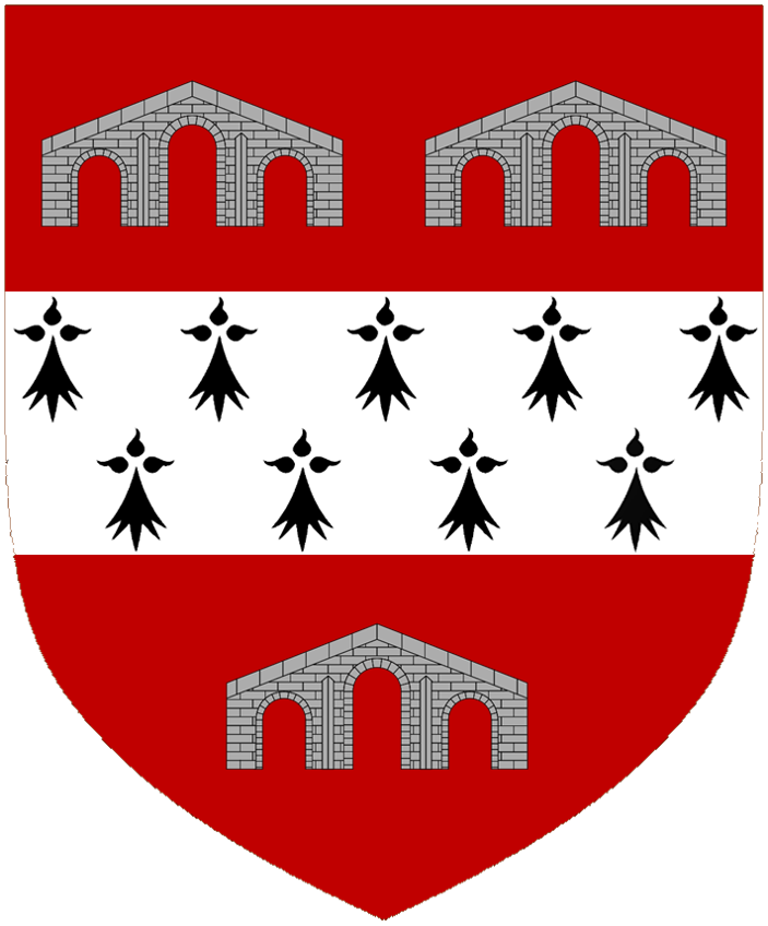 Shield of arms of The Viscount Craigavon